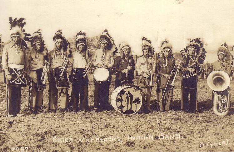 Chief Wheelock's Indian Band Other information No.